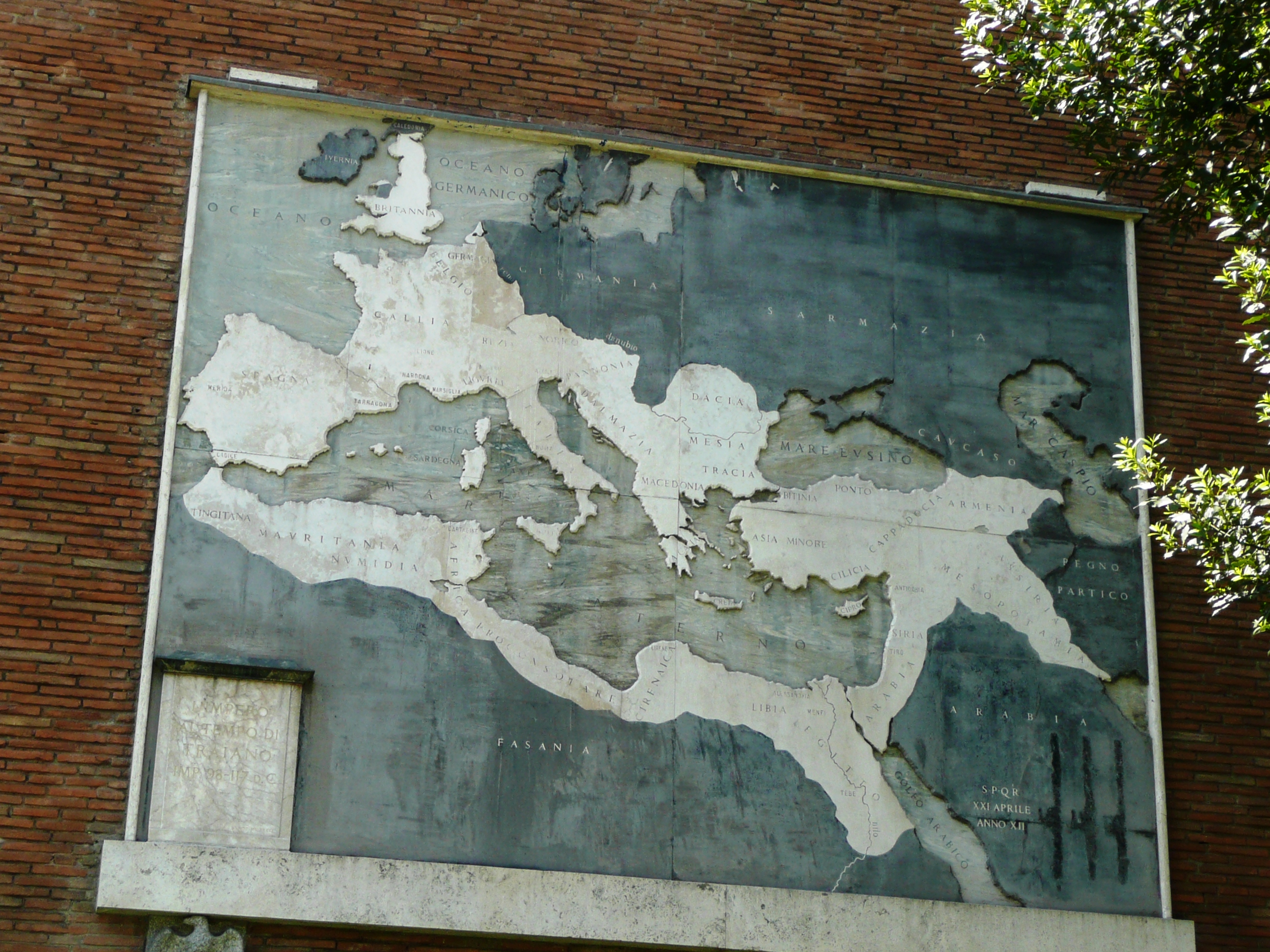 Maps of the Roman Empire in Via dei Fori Imperiali (Rome)